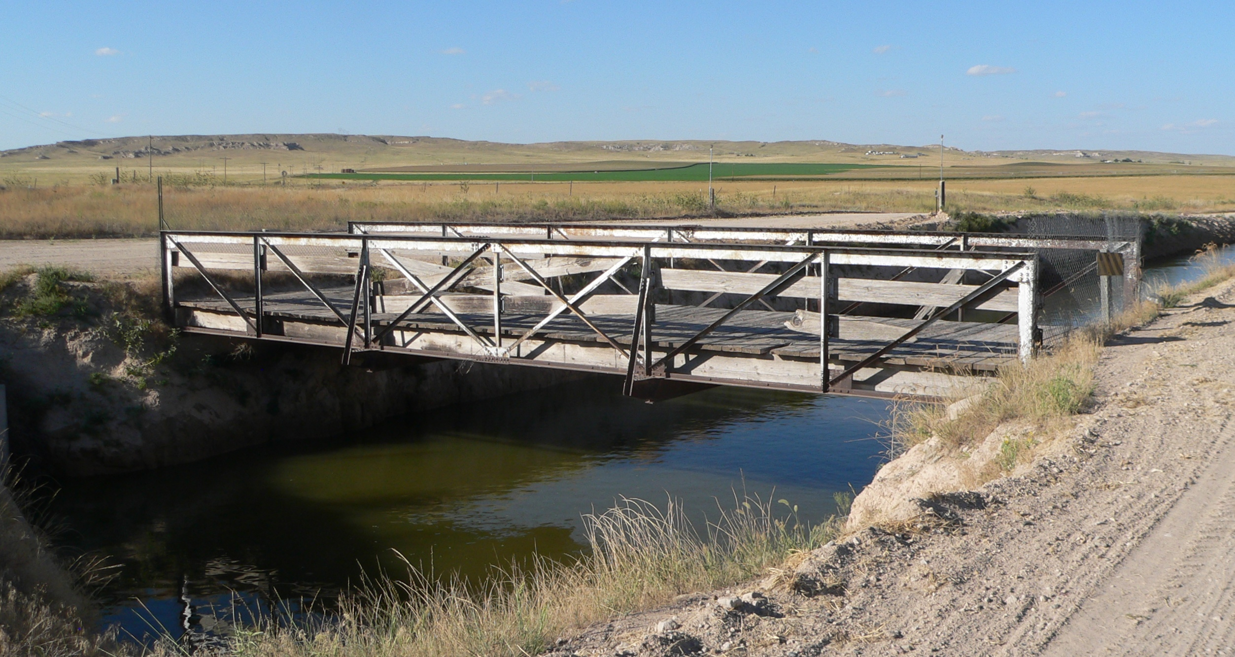 Interstate Canal Bridge, formerly carrying a county road across the Interstate Canal, just upstream (west) of Lake Alice in northern Scotts Bluff County, Nebraska; seen from the south. The bridge runs northwest-southeast; upstream is left. The Pratt pony-truss bridge was built ca. 1915, and is listed in the National Register of Historic Places. It is now closed, and a relatively new concrete beam bridge, located just upstream, carries the road across the canal.